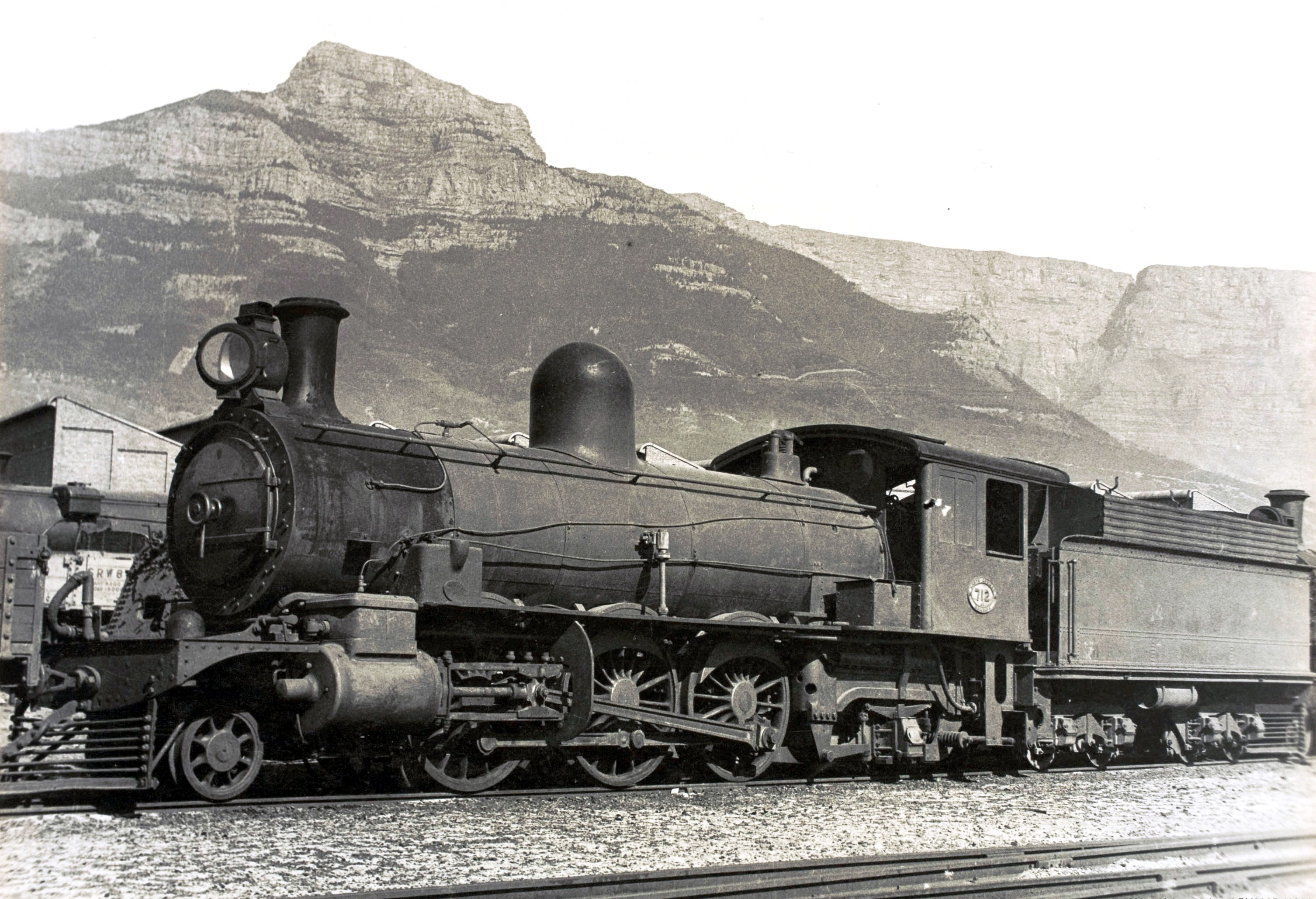 South African Railways Class 6Y 2-6-2 no. 712